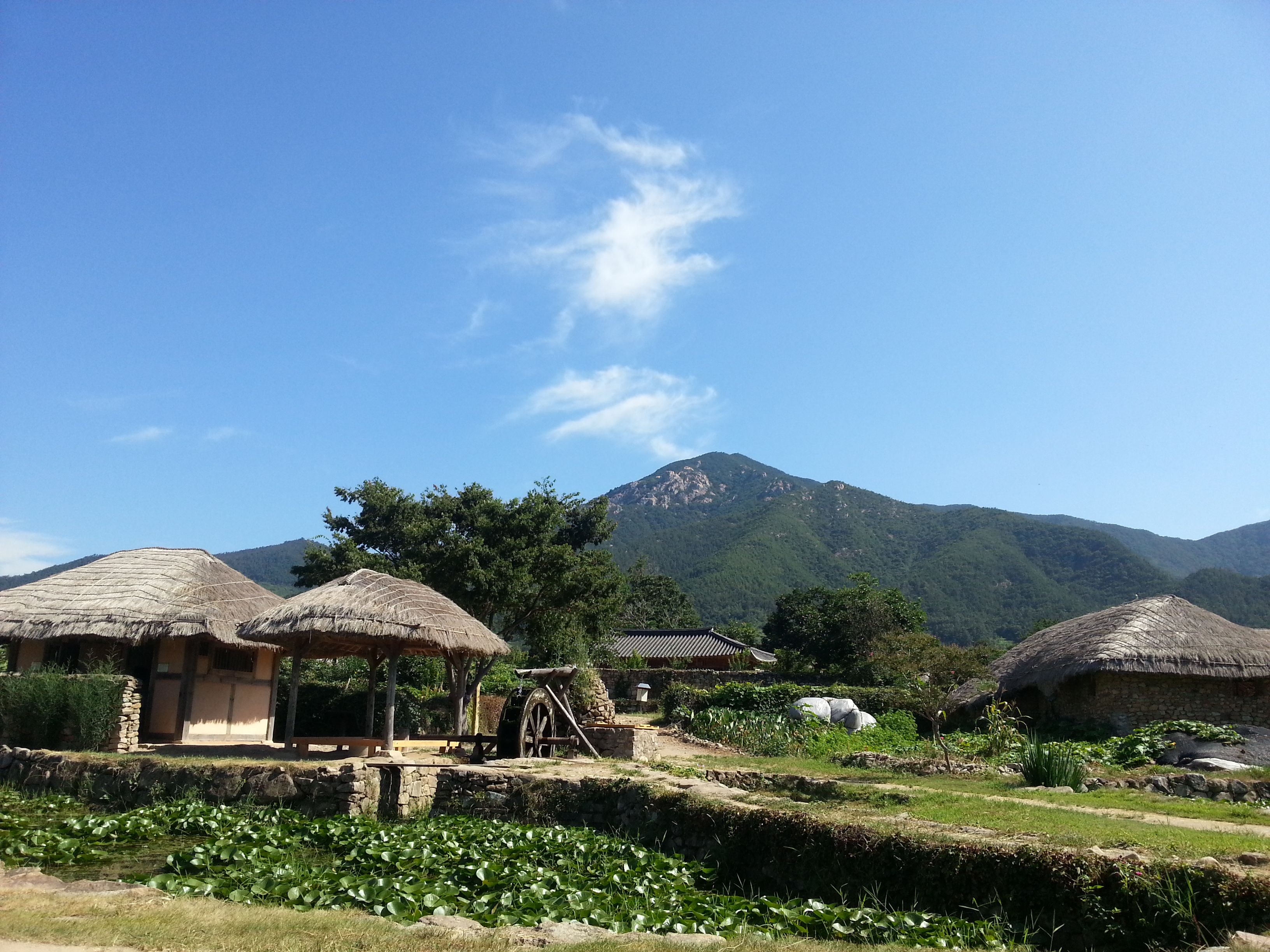 a village in Nagan castle